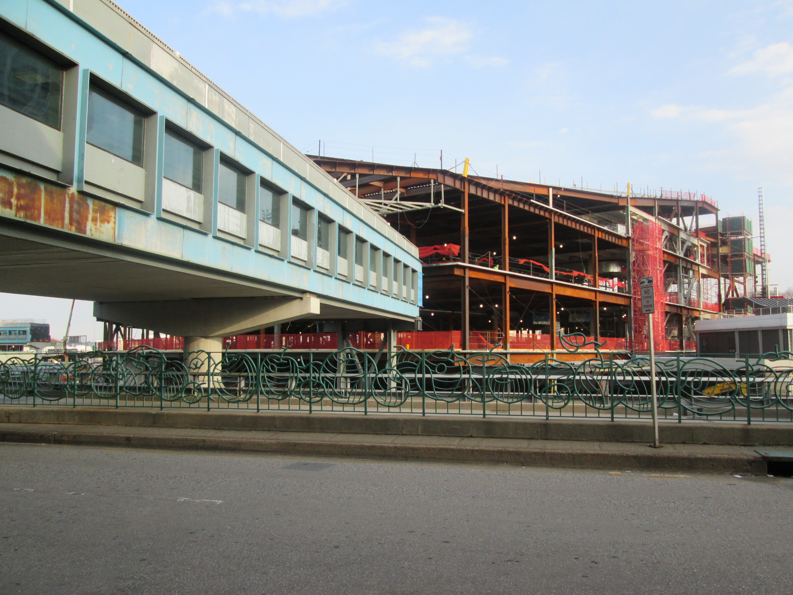 LaGuardia Airport, seen in April 2018